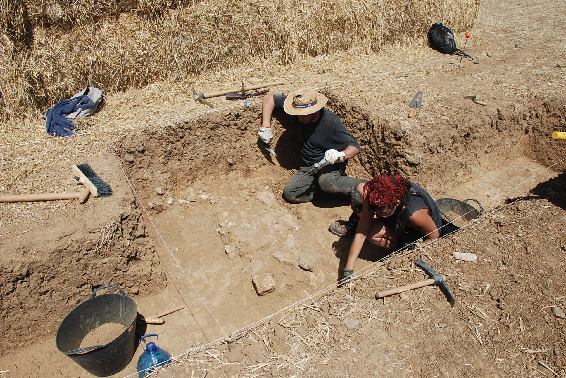 Archaeological excavations at the site of Dessobriga in Osorno la Mayor (province of Palencia, Castile and León). West corner of monumental building from the trenches 3.